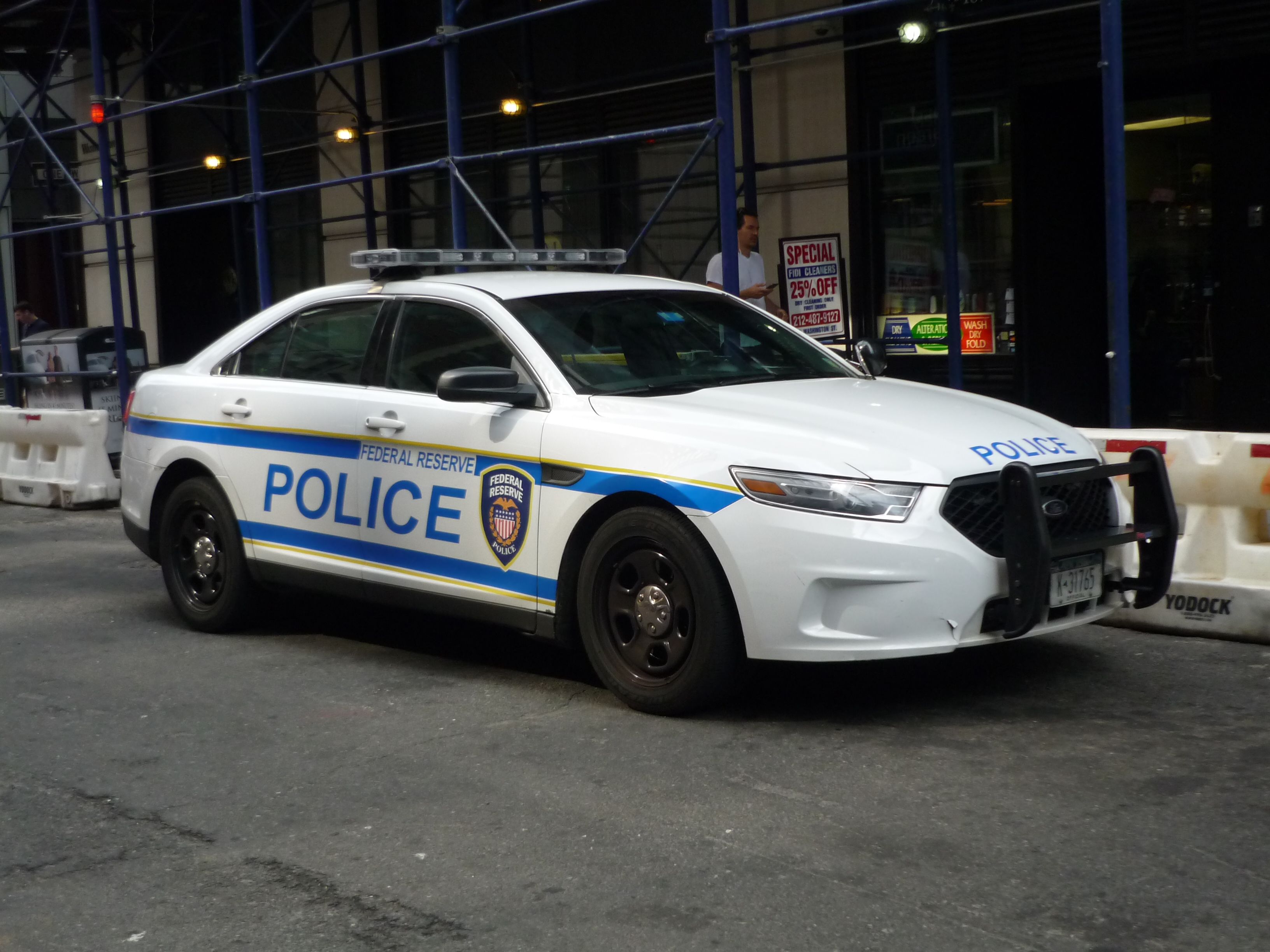 The Federal Reserve Police represent the law enforcement capacity of the United States' central banking system. -- Introduction